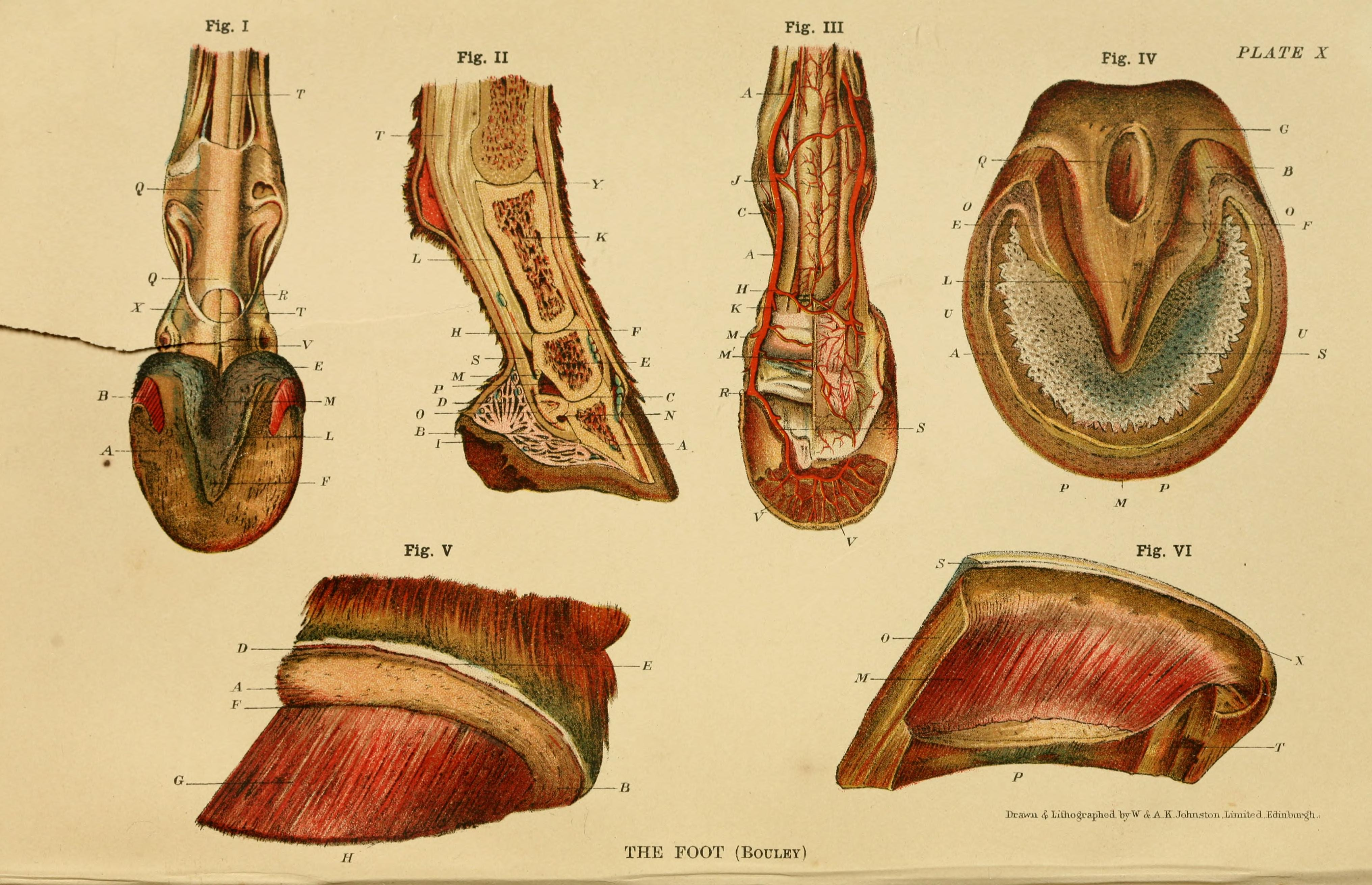 Title: The anatomy of the horse : a dissection guide Year: 1922 (1920s) Authors: McFadyean, John, Sir, 1853-1941 Subjects: Horses; Horses -- Anatomy Publisher: Edinburgh : Johnston Text Appearing Before Image: ' Text Appearing After Image: '